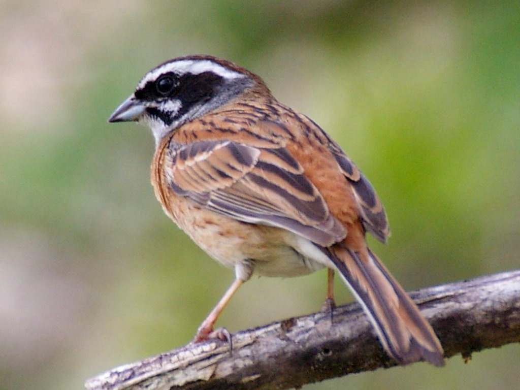 siberian meadow bunting (houjiro), male. Japan, Tsukuba 2007